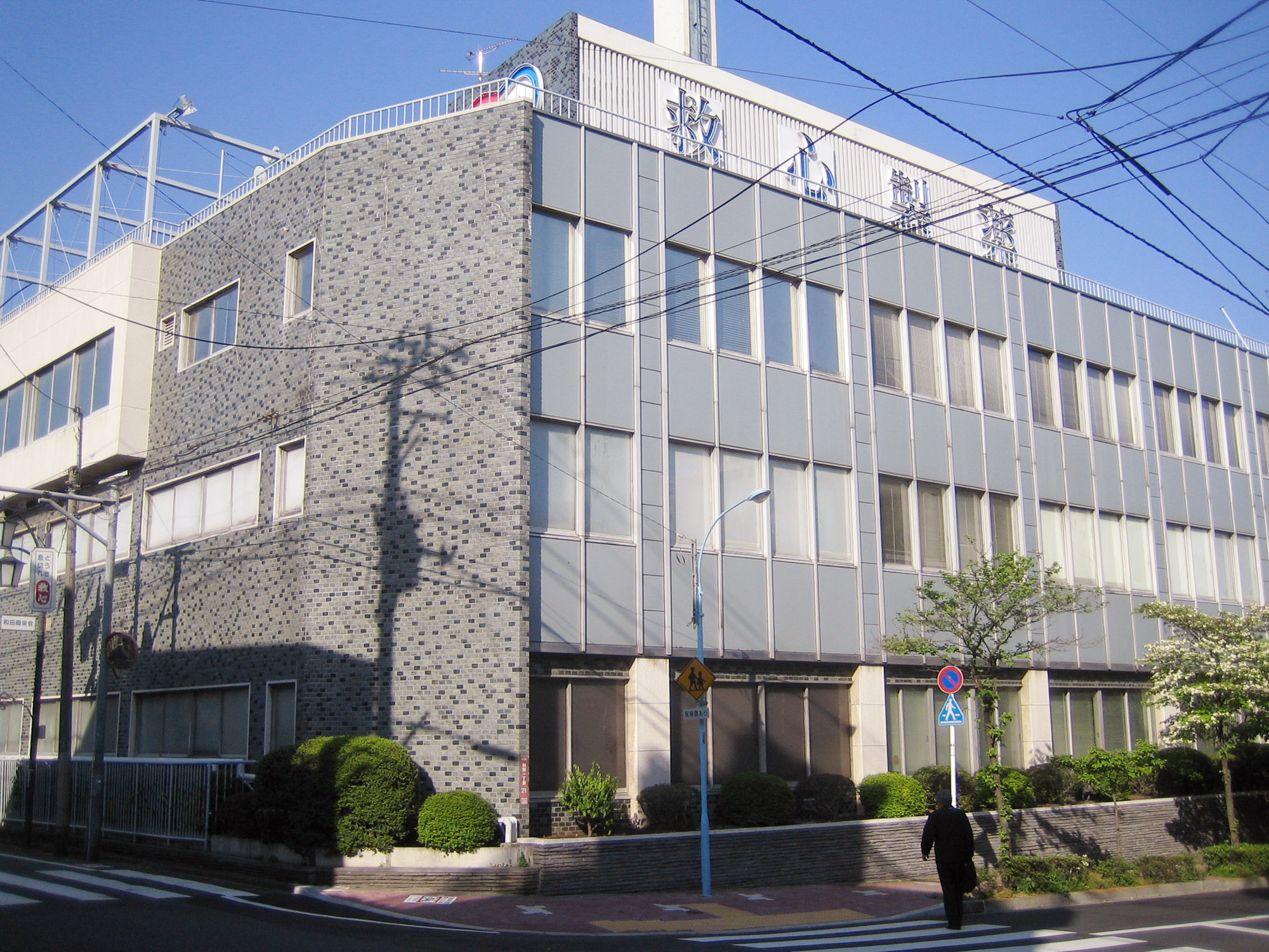 Kyushin Pharmaceutical (救心製薬), in Suginami, Tokyo, Japan